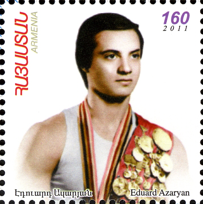 Sport - Olympic Champions - Eduard Azaryan